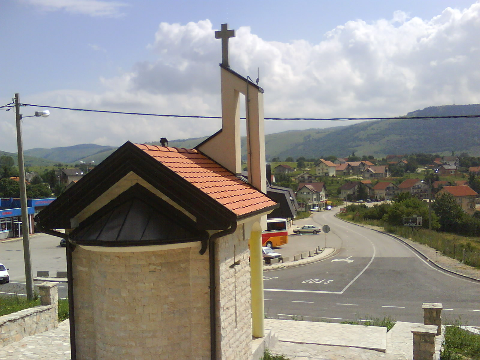 Roman Catholic chappel of St. Anthony in Šujica village, municipality of Tomislavgrad